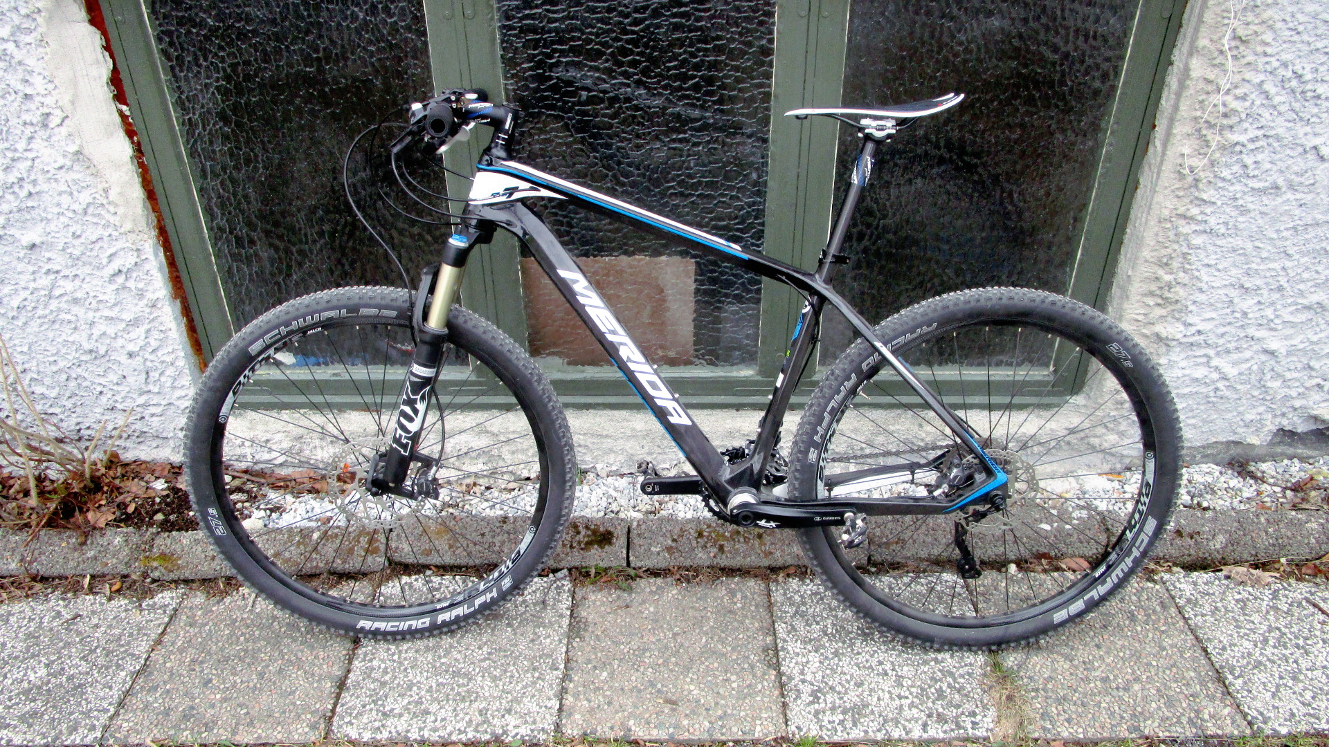 2014 Merida Big Seven Carbon XT Edition. 27.5" hardtail mountain bike (27.5 Mountain bike). Schwalbe Racing Ralph tires. Fox Racing Shox 32 Float 650B CTD Remote ready O/C (1.5T) - Evo 100 suspension fork. Aftermarket saddle and handlebars.